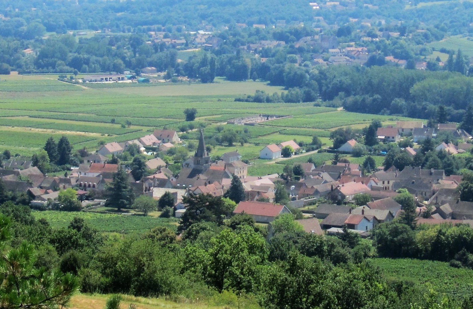 View of Saint-Martin-sous-Montaigu, France, from "Croix du Teu"